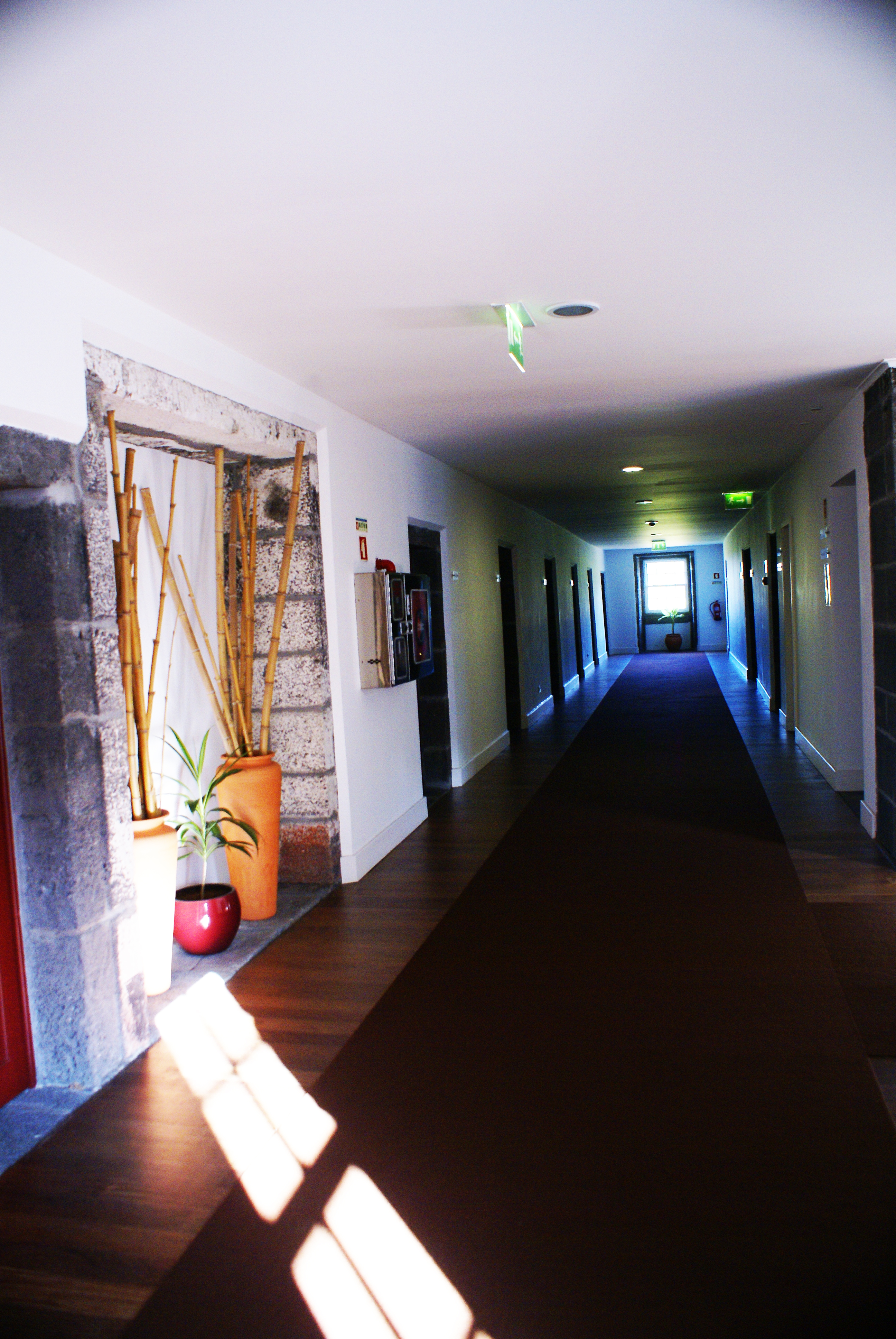 Corridor of the Convent of São Pedro de Alcântara, São Roque, Pico (Azores), Portugal